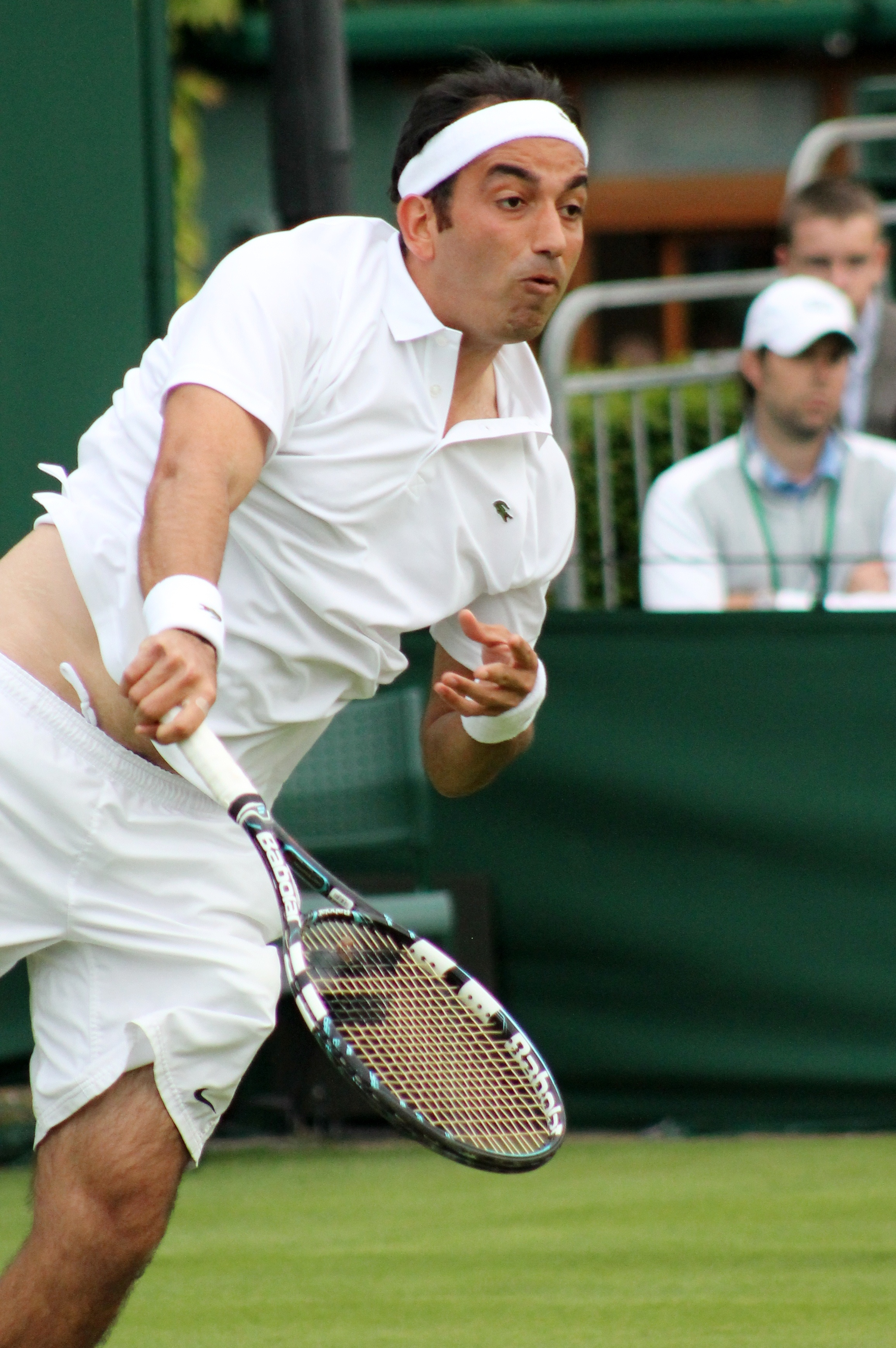 Purav Raja playing at Wimbledon 2013